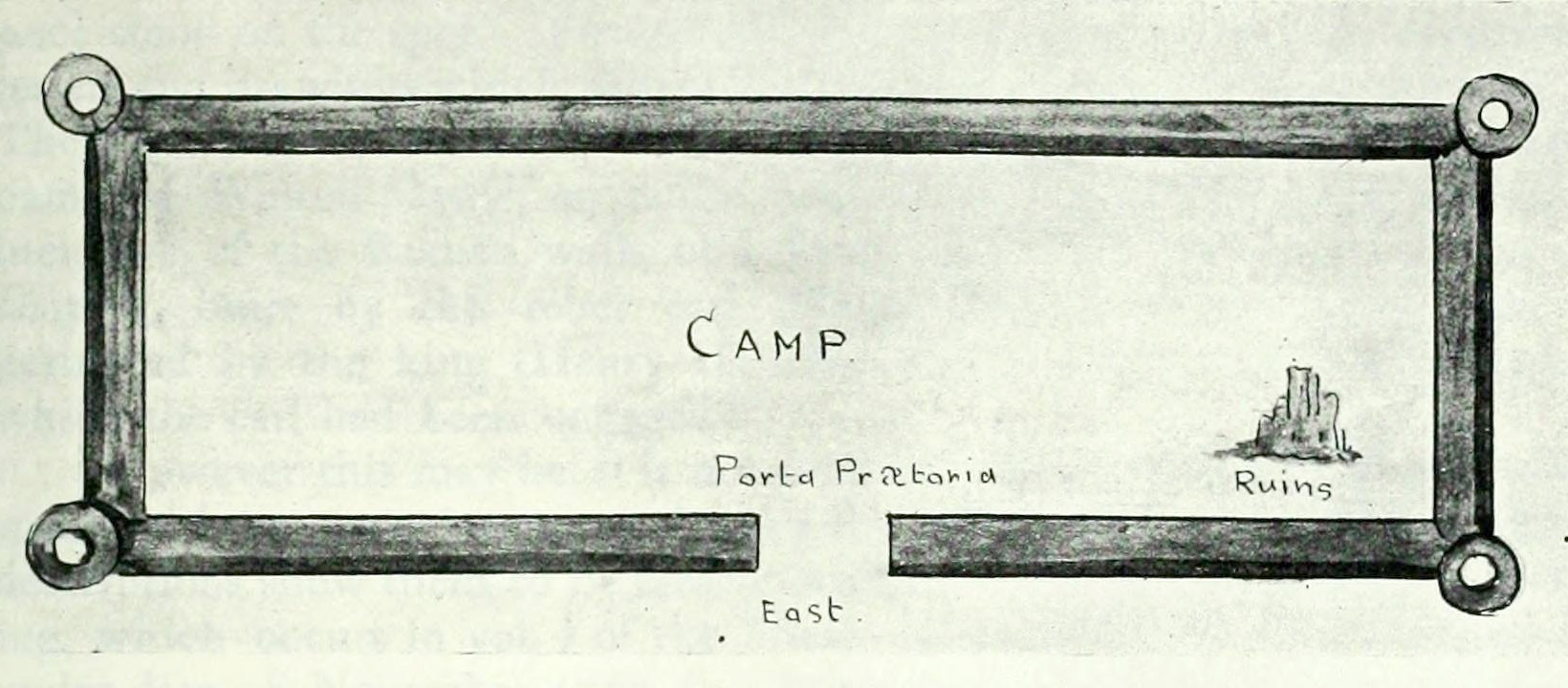 Plan of the Roman Saxon Shore fort known as "Walton Castle", in Felixstowe, Suffolk. The ruins in the northeast corner (bottom right) may be those of a Norman castle which was dismantled by Henry II in 1176. The drawing is from: The Victoria history of the county of Suffolk, Volume 1. Published 1907. The drawing is dated to 1623.